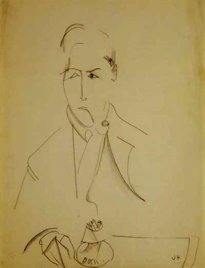 Modigliani with the pipe